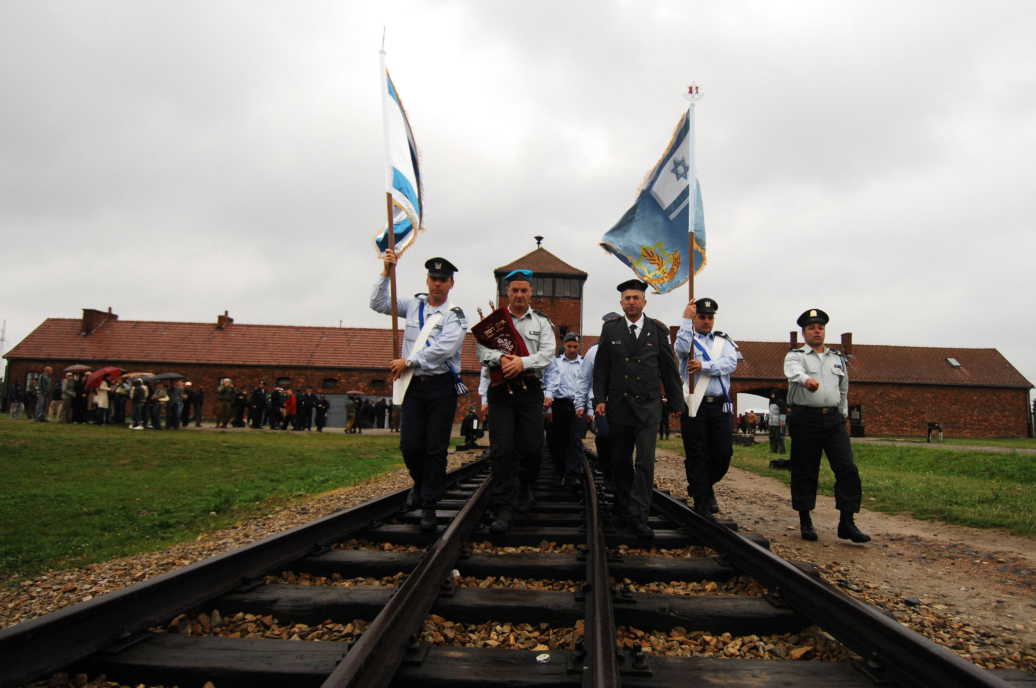 The "witnesses in uniform" delegations program sends hundreds of IDF officers each year to a special journey following the memory of the Holocaust and the 6 million Jews that were murdered in those cruel times. Featured as Photo of the Day on January 27, 2012, the International Holocaust Remembrance Day. The Israel Defense Forces Facebook page The Israel Defense Forces blog Follow us on Twitter